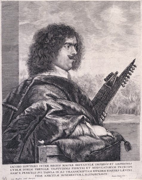 Jacques Gaultier (b. ca. 1600; d. after 1652), French baroque lutenist